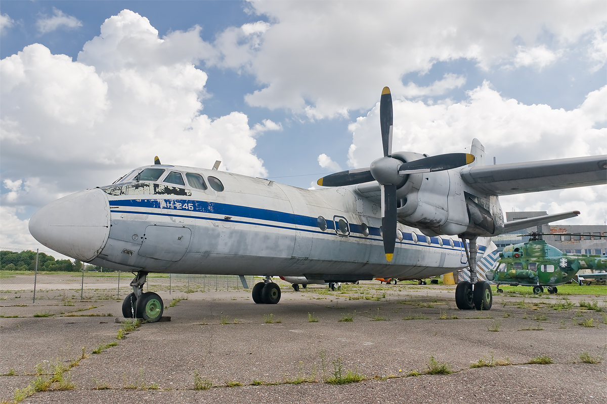 Preserved An-24 at Aleksotas airport (S. Dariaus / S. Gireno) (EYKS), Kaunas